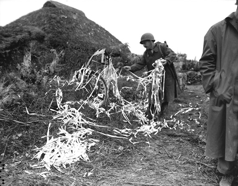 Marine examining windrow dropped by Japanese bomber during air attack against Yontan airfield. The bunches of tinfoil paper are tossed out in flight in the hope they will confuse radar detection.